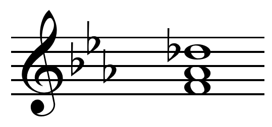 Neapolitan sixth in C minor. Created by Hyacinth (talk) 20:34, 29 November 2010 using Sibelius 5.